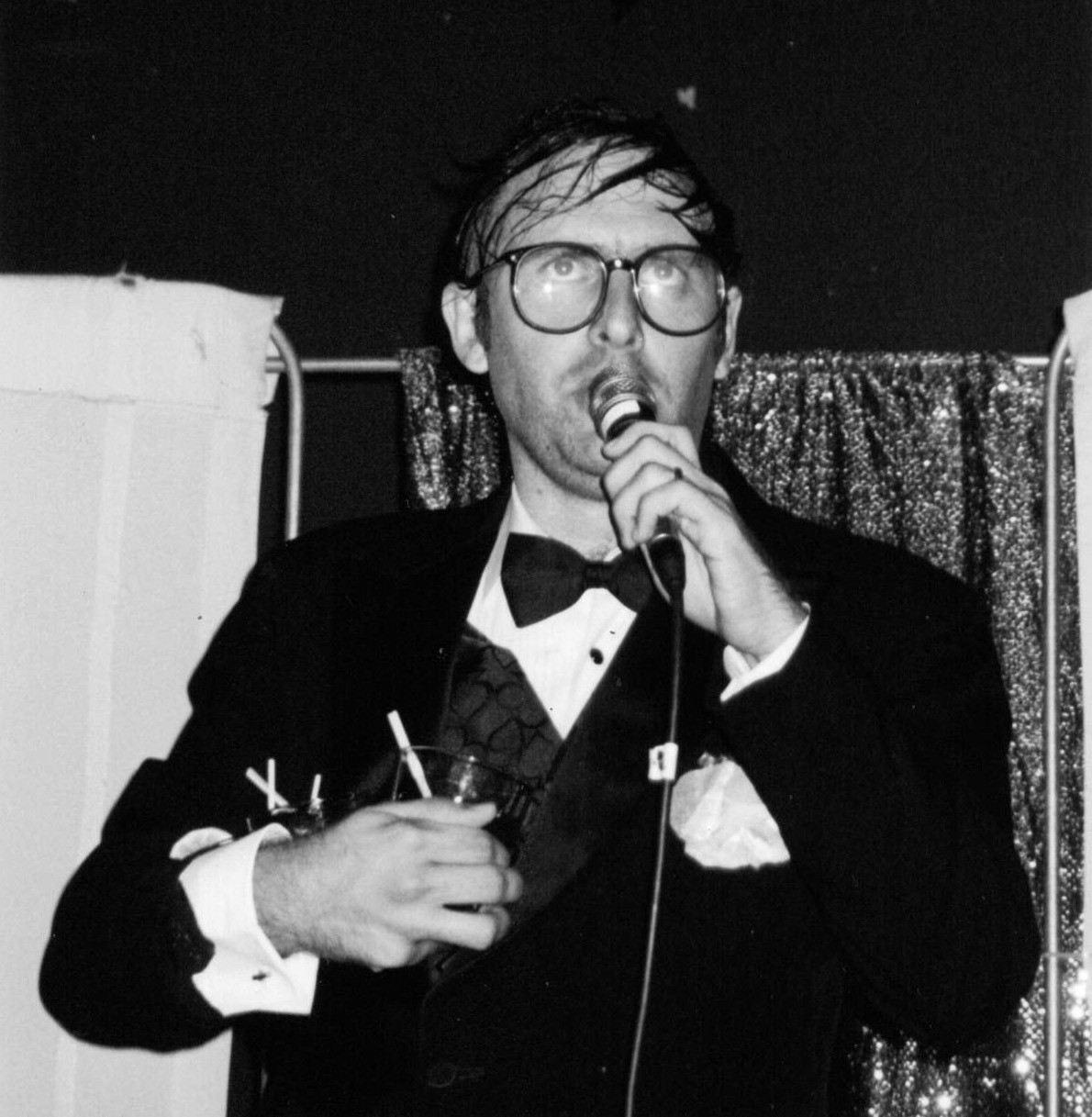 Gregg Turkington as Neil Hamburger at the Blackbird in Portland, Oregon